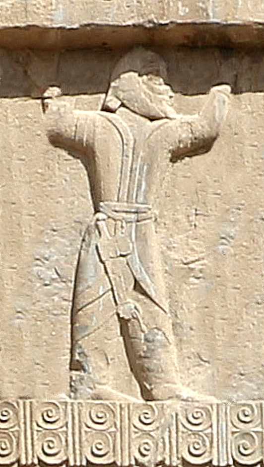 For reference, a similar relief from the tomb of Xerxes I.Artaxerxes III Sogdian soldier